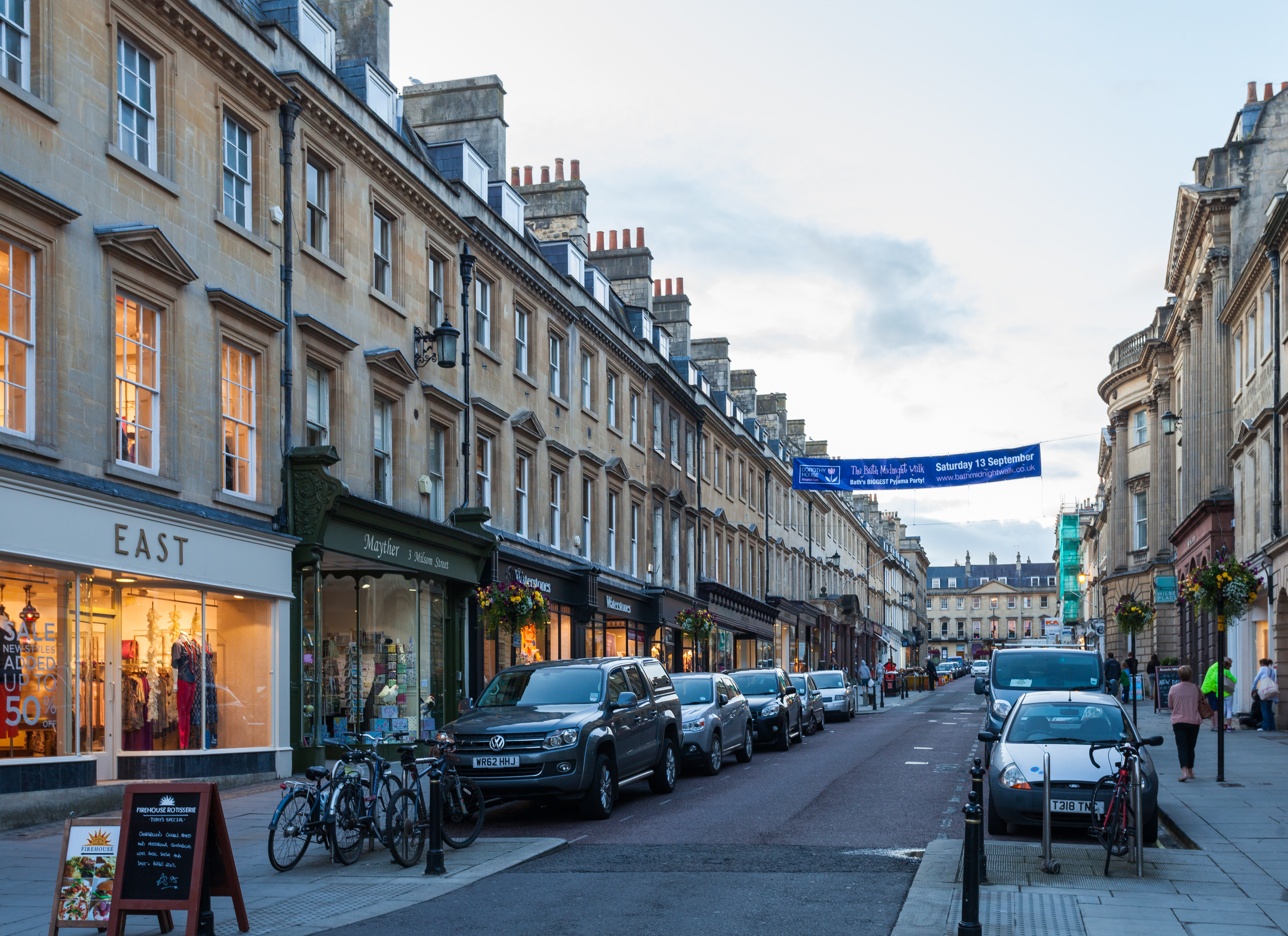 Milsom St, Bath, England